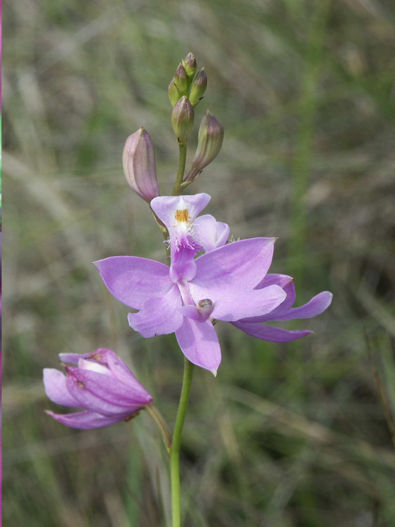 Hendry Co., FL, USA